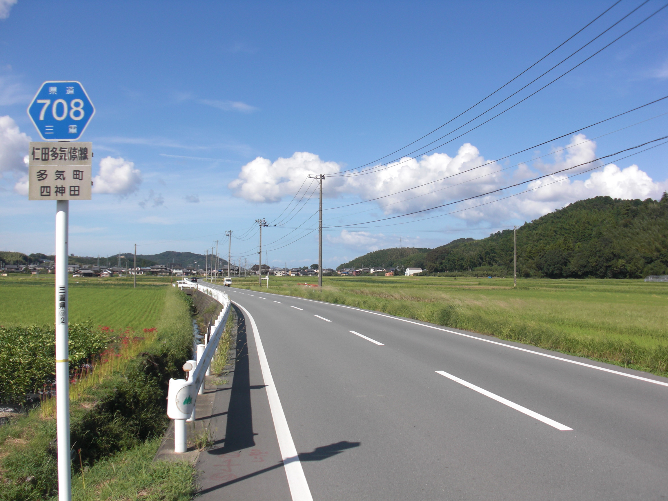 This is the Mie prefectural road No.708 Nita Taki Station Line at Shikoda, Taki, Taki, Mie, Japan.